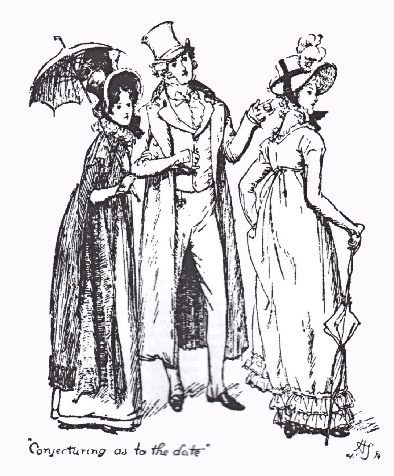 Illustration for Pride and Prejudice, ch. 43: "conjecturing as to the date"